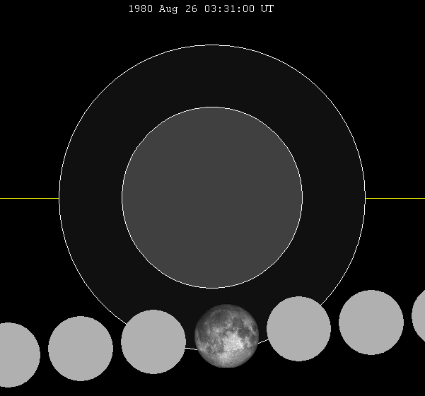 August 1980 lunar eclipse chart of moon's path through the earth's shadow. thumb